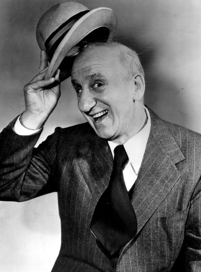 Promotional photo of Jimmy Durante from the television show, The Hollywood Palace. This photo was produced prior to 1978 and has no copyright markings. It can be dated by the ABC information on the back of the photo which is shown in the original upload and the photo link above.